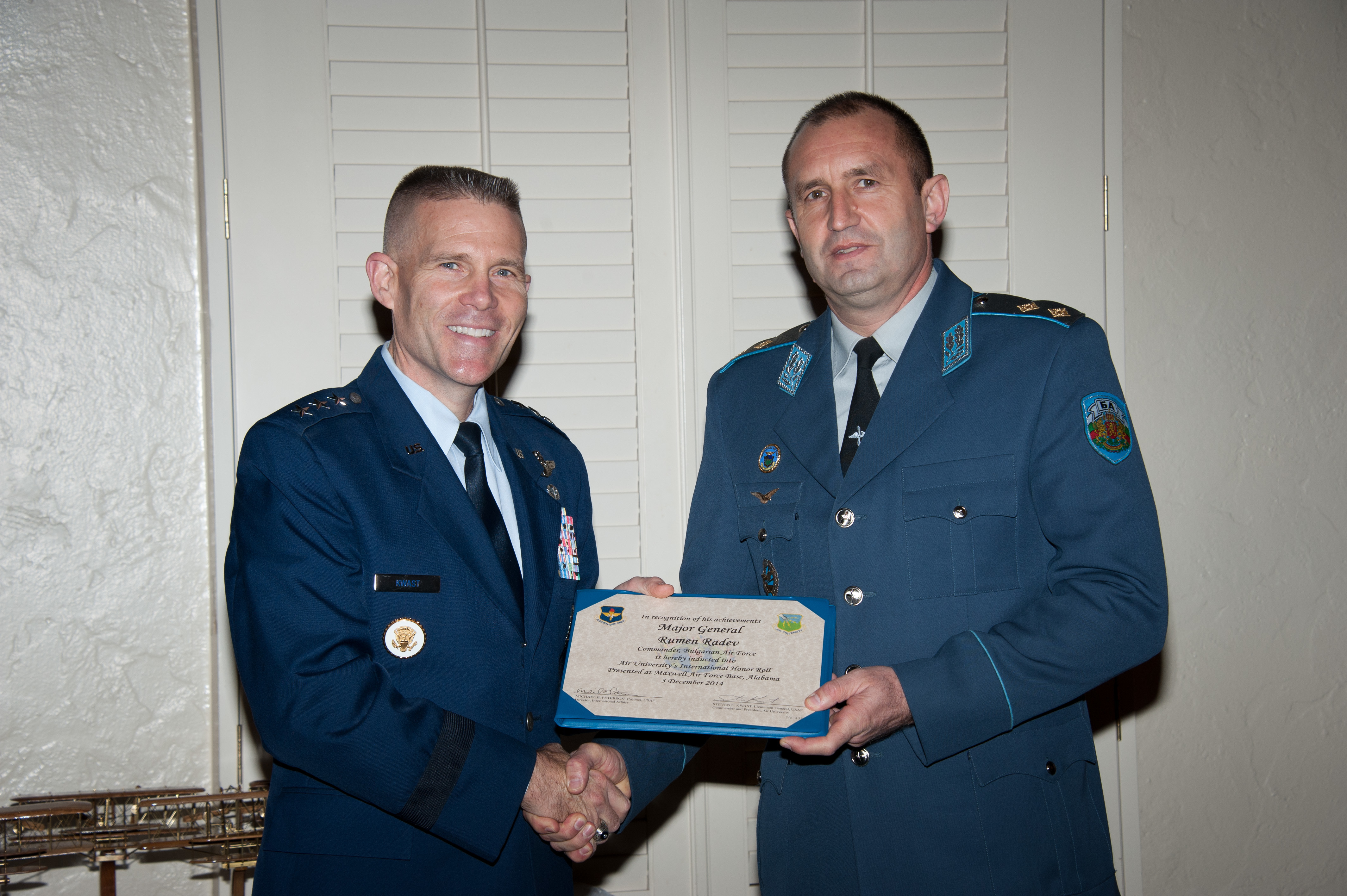 Lt. Gen. Steven Kwast, commander and president, Air University, inducts Maj. Gen. Rumen Radev, commander, Bulgarian air force, into the International Honor Roll, Dec. 3, 2014. Radev attended Air War College and Squadron Officer School. IHR recognizes international graduates who attain leadership positions in their country as chief of their service or higher. (U.S. Air Force photo by Melanie Rodgers Cox/Released)